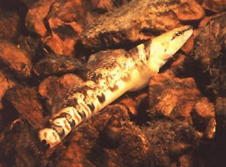 Etheostoma nianguae USFWS photo